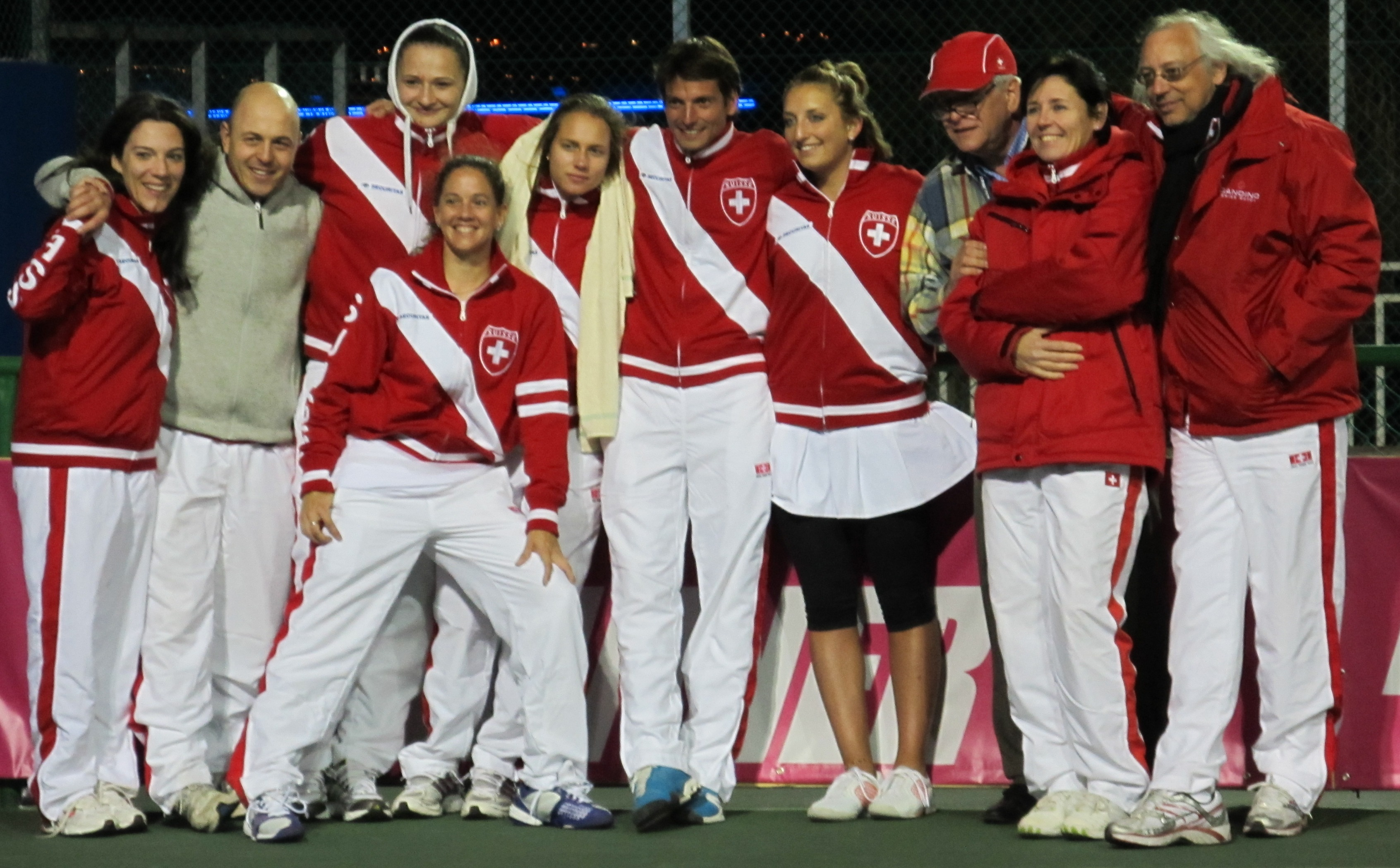 Switzerland Fed Cup team after defeating the Netherlands in the 4th day of Fed Cup Group I 2011 Europe/ Africa in Eilat, Israel